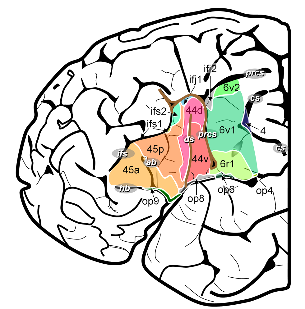 lateral surface of an individual postmortem brain.